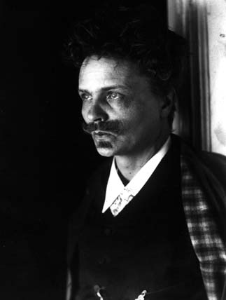 Self-portrait of Swedish writer August Strindberg.